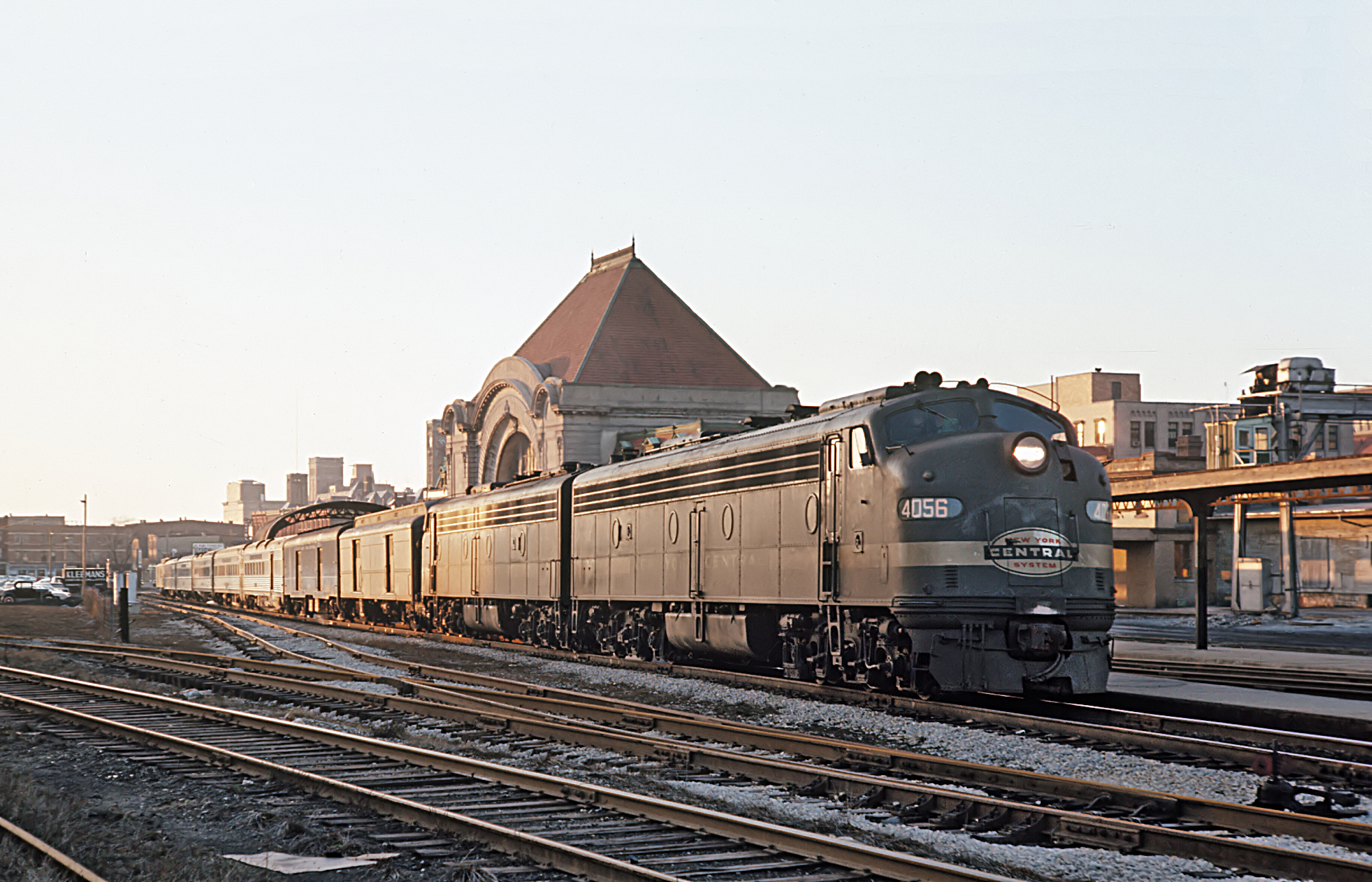 NYC E8A #4056 leading the Ohio State Limited in Springfield, Ohio in February 1965